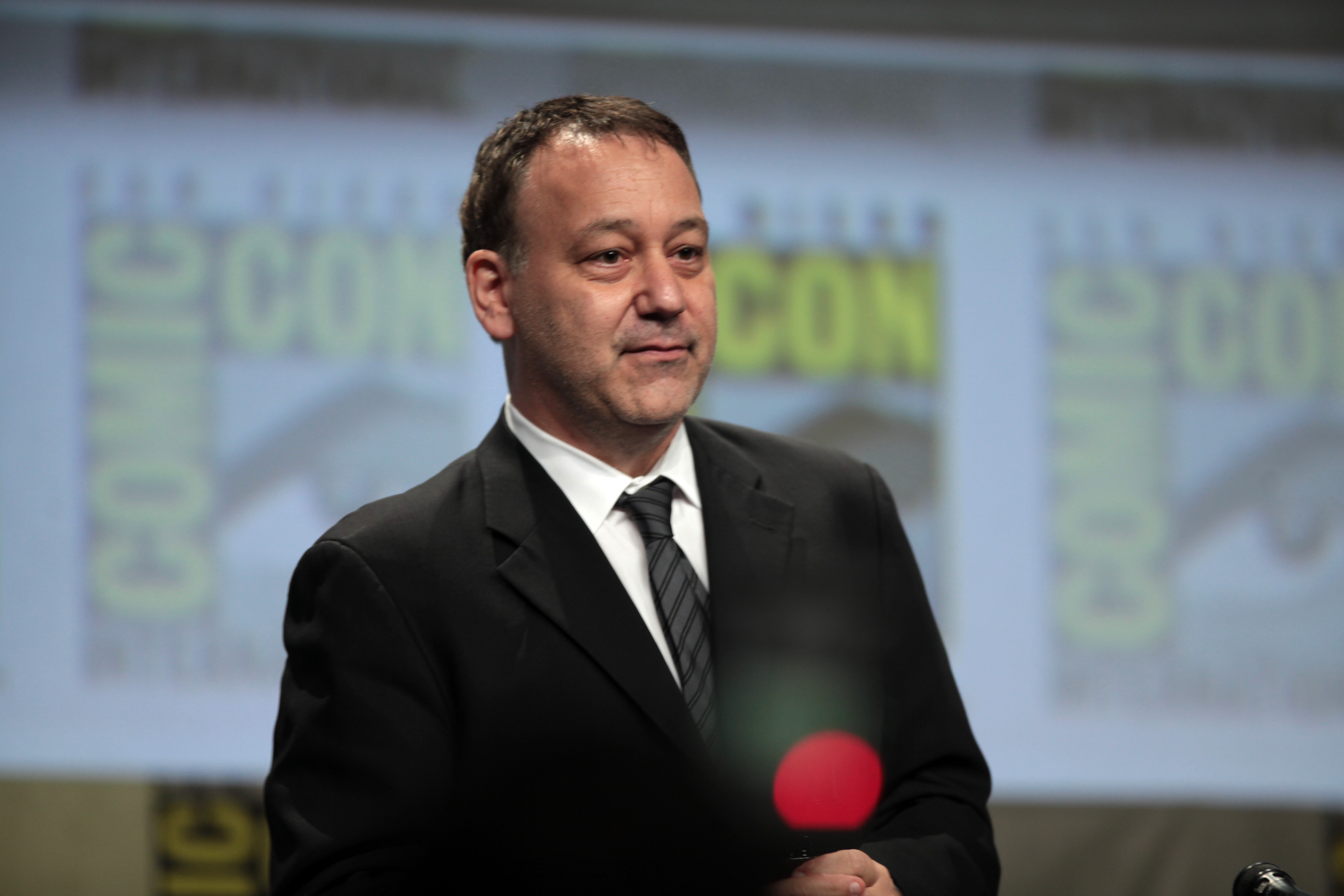 Sam Raimi speaking at the 2014 San Diego Comic Con International at the San Diego Convention Center in San Diego, California.